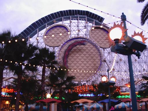 A train on California Screamin' loops through Mickey's head. Taken by me on 23 November 2005.